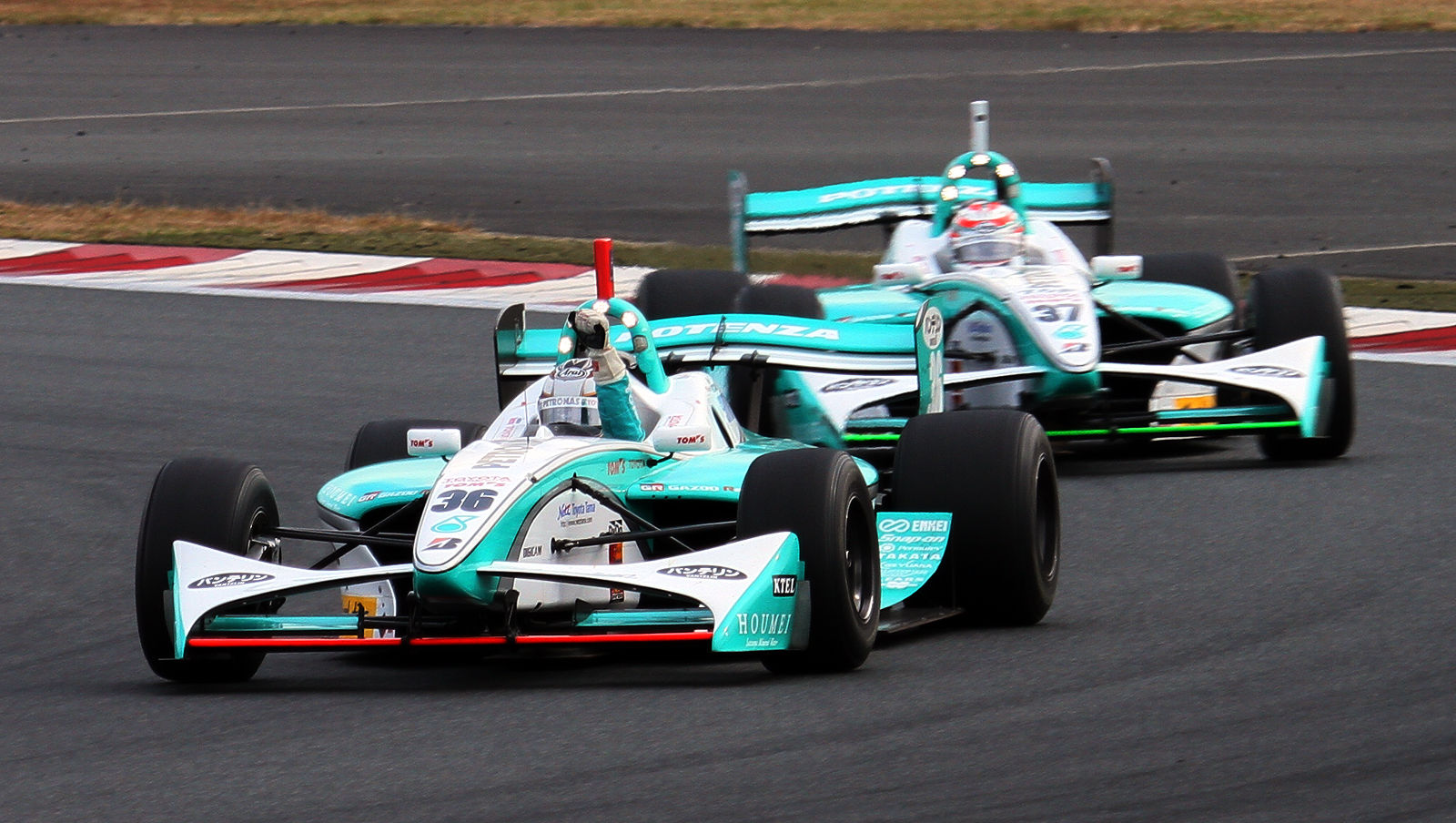 2010 JAF Grand Prix - Formula Nippon Race 1: André Lotterer (#36) and Kazuya Oshima (#37) giving 1-2 finish for TOM'S